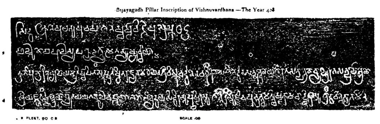 Bijayagadhpillar inscription of Vishnuvardhana